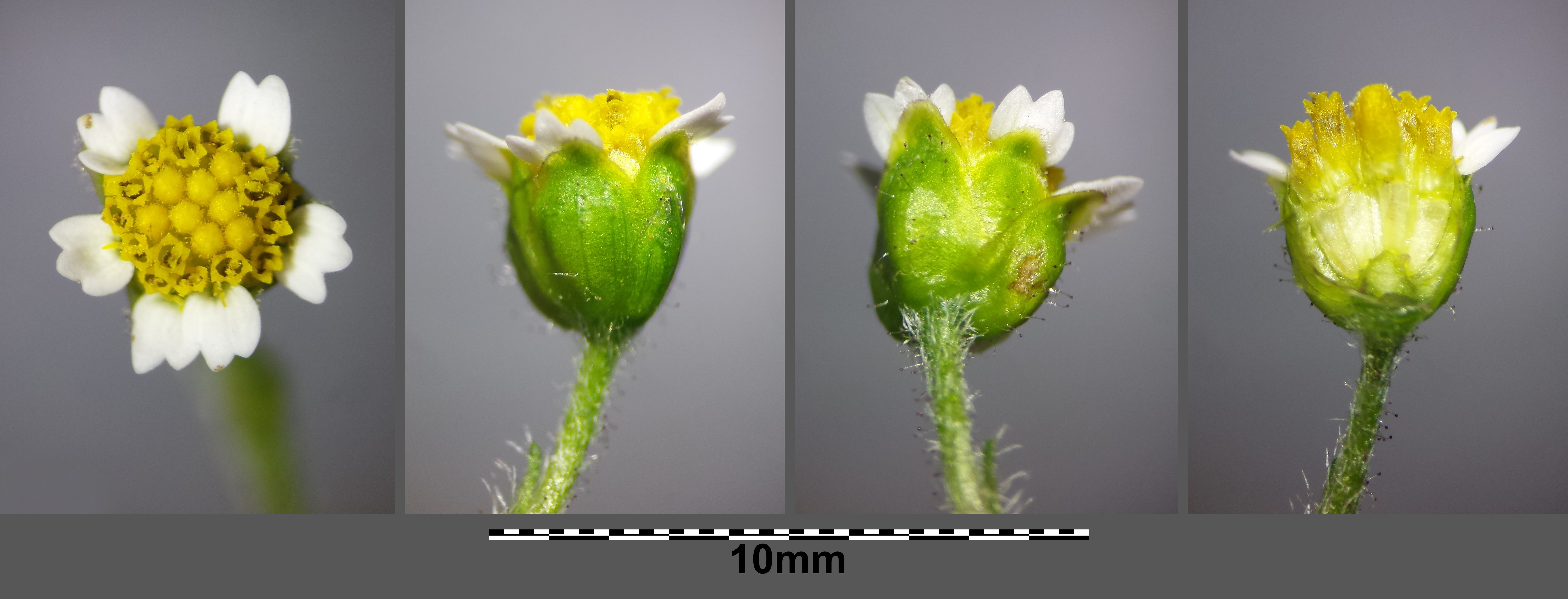 Flower basket Taxonym: Galinsoga ciliata ss Fischer et al. EfÖLS 2008 ISBN 978-3-85474-187-9 Location: near Steinberg near Niederhollabrunn, district Korneuburg, Lower Austria - ca. 300 m a.s.l. Habitat: wine yard